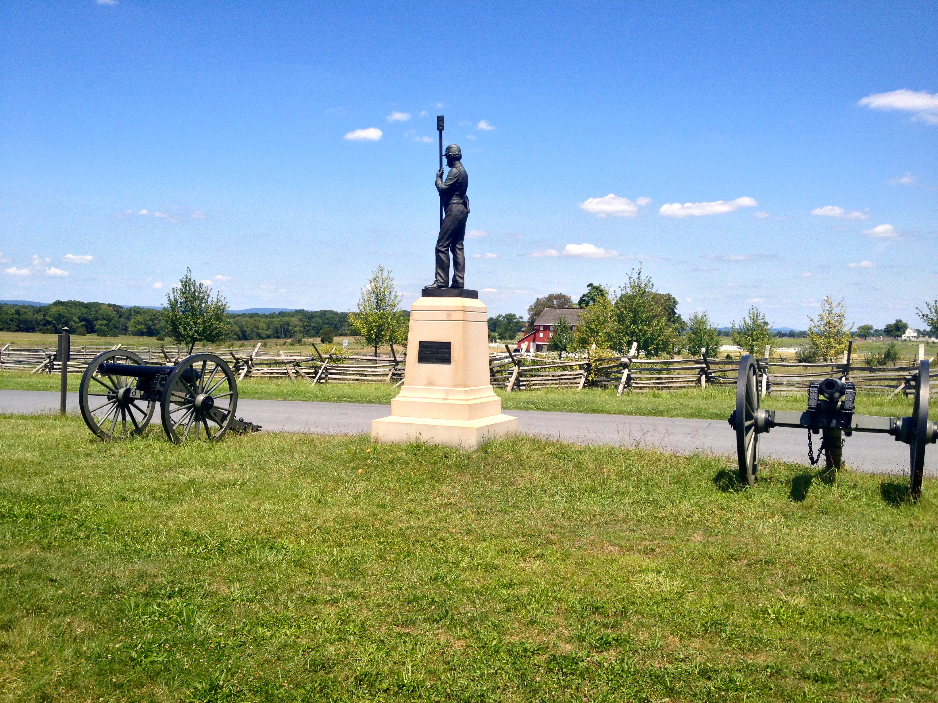 Gettysburg National Military Park, Gettysburg National Military Park, near Gettysburg Cumberland, Highland, and Straban Townships